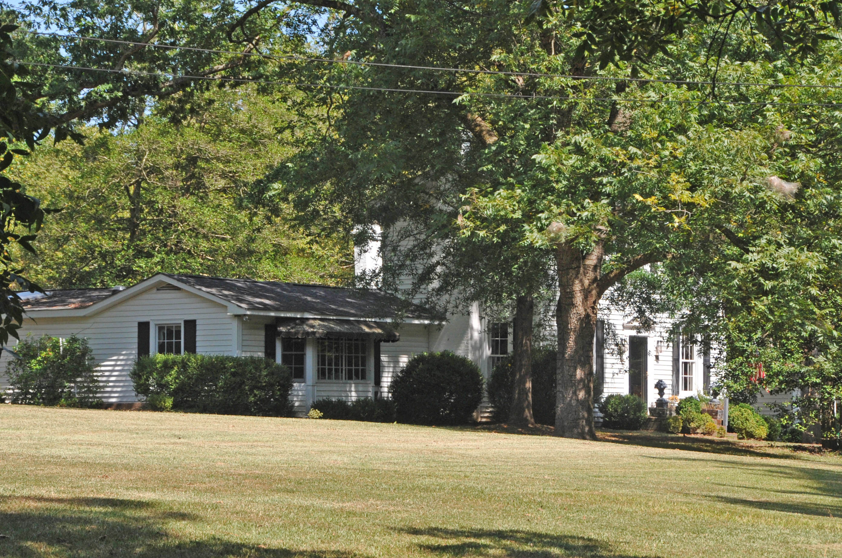 1855 MID 19TH CENTURY REVIVAL; McIVER WAS ONE OF THE FOUNDERS OF SANFORD